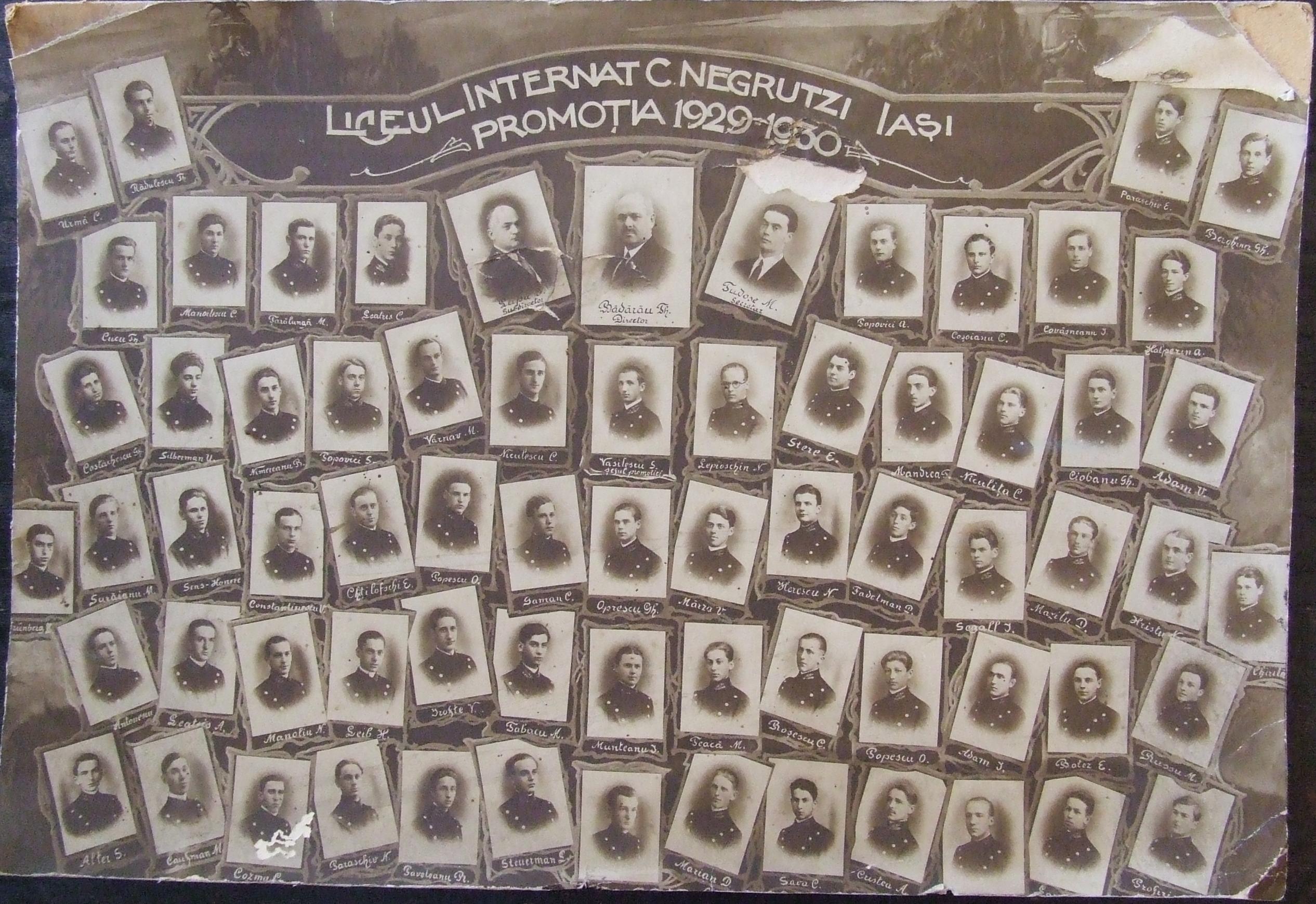 Graduation photograph for the 1929-1930 alumnis of Liceul Internat "Costache Negruzzi" of Iași, Romania. Recto page of the copy that belonged to lieutenant-colonel Constantin C. Roșescu (9th from left to right, 5th row).